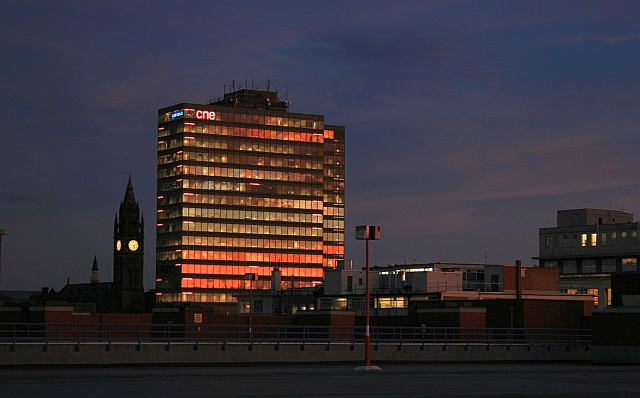 Cne Building and Town Hall Clock Catching the last of the winter sunshine.